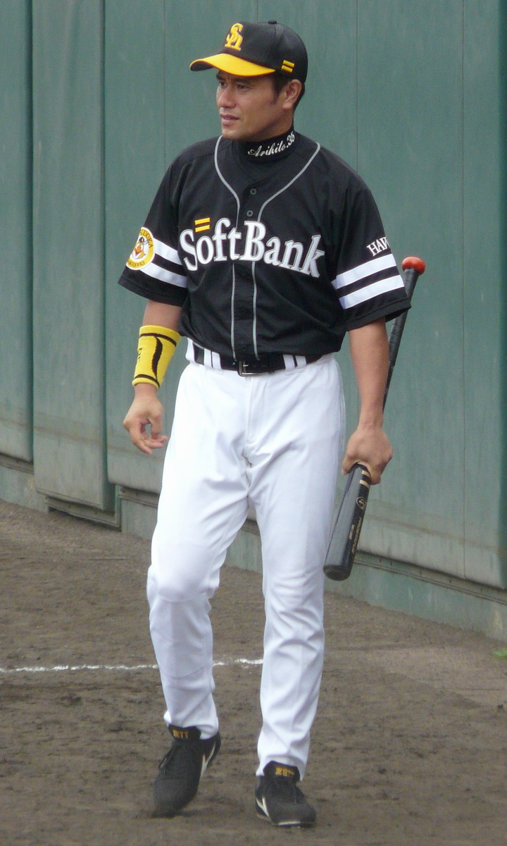 Arihito Muramatsu, outfielder of the Fukuoka SoftBank Hawks, at Hanshin Naruohama Baseball Ground.